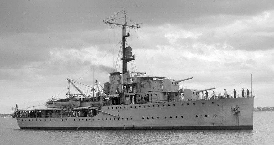 Dutch gunboat Hr.Ms. Flores